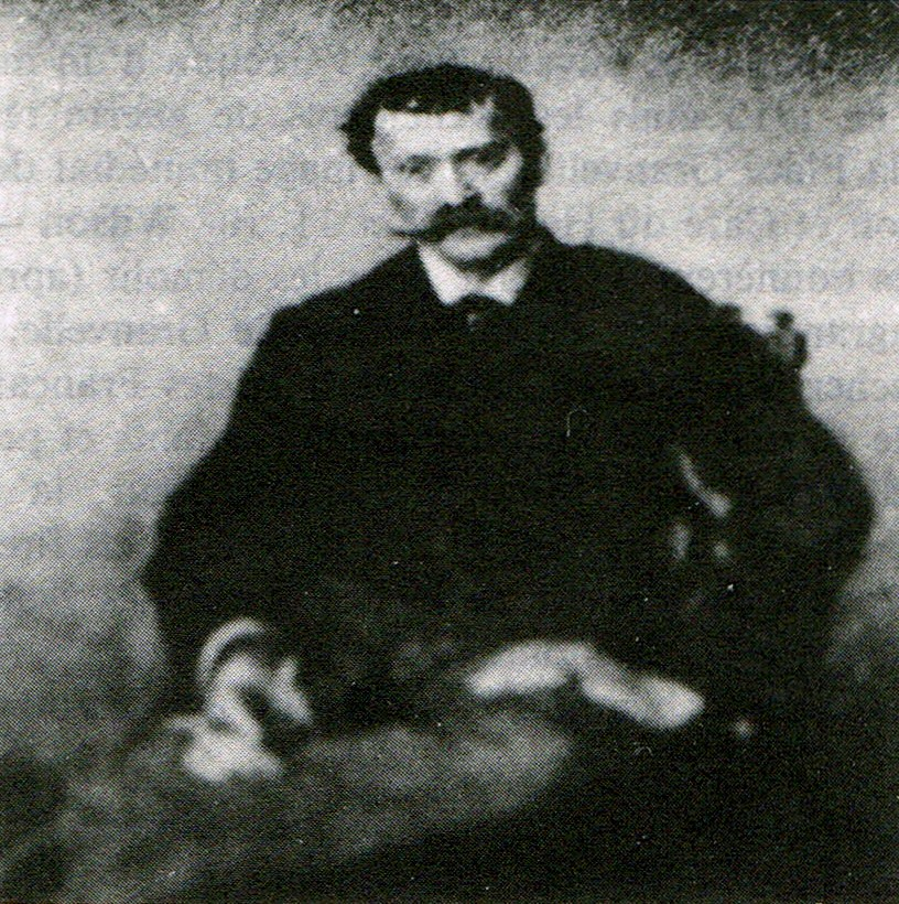 Pastel of Arthur-Georges Veil-Picard, in 1887, by Giovanni Boldini.